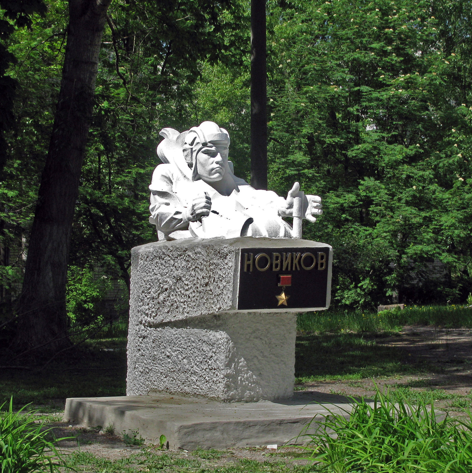 Novikov monument